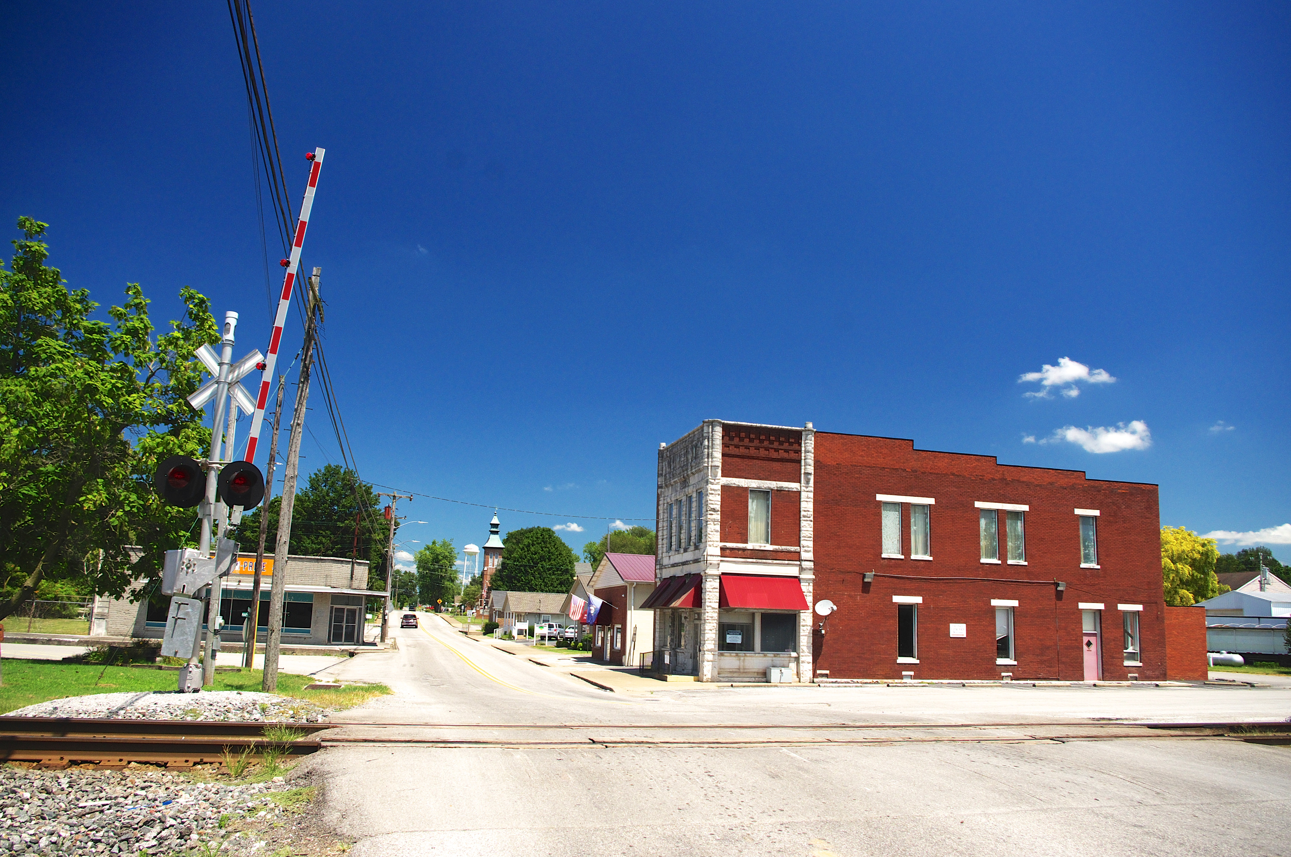 Main Street (Kentucky Route 115/1027) in Pembroke, Kentucky, United States.